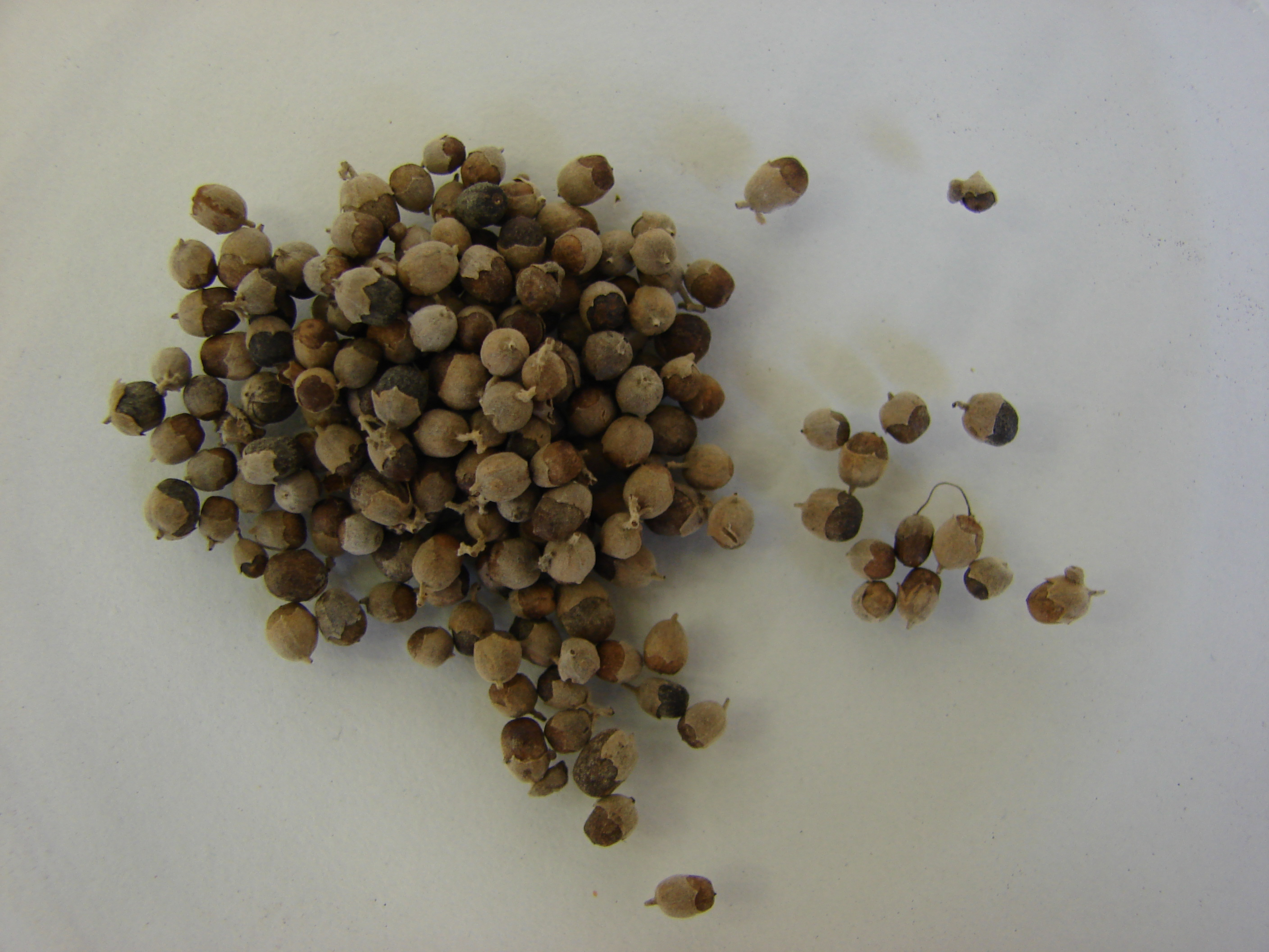 Agni casti fructus, Vitex agnus-castus